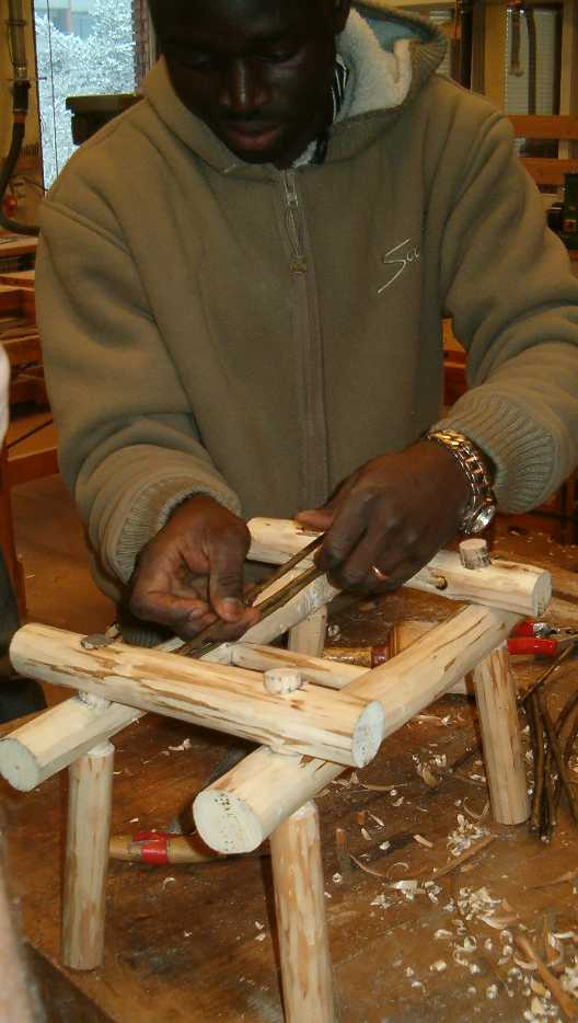 Kulturteknik (Sloyd). A guest teacher show how to make a African chair.